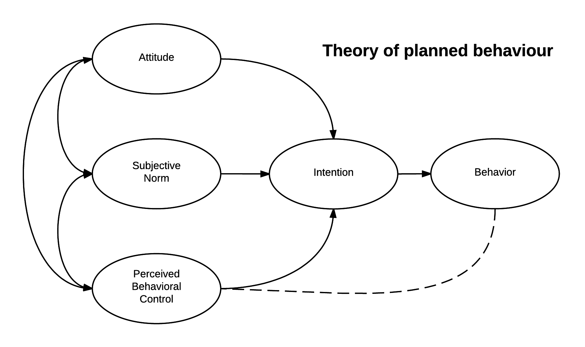 I am the creator of this scheme